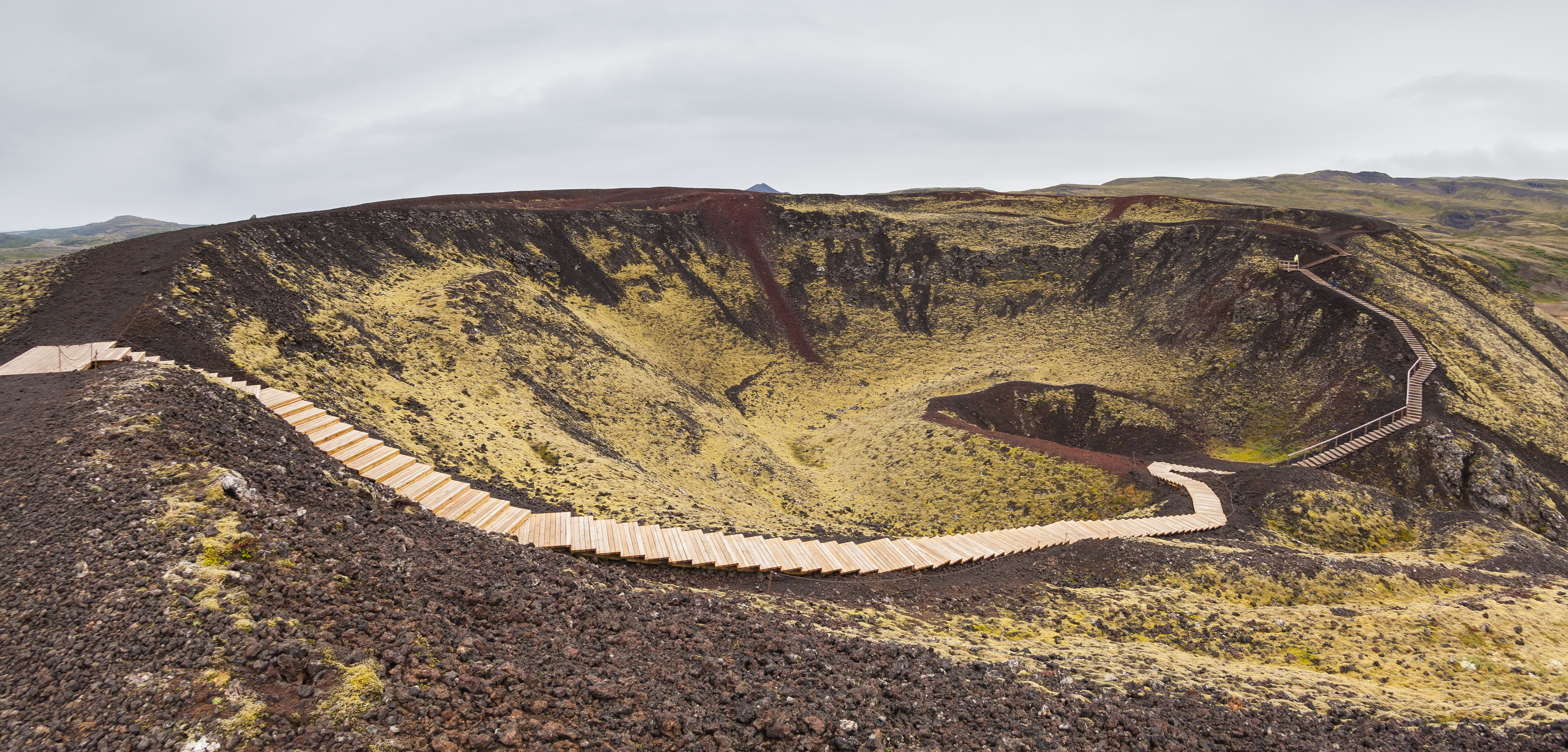 Stóri Grábrók crater, Vesturland, Iceland